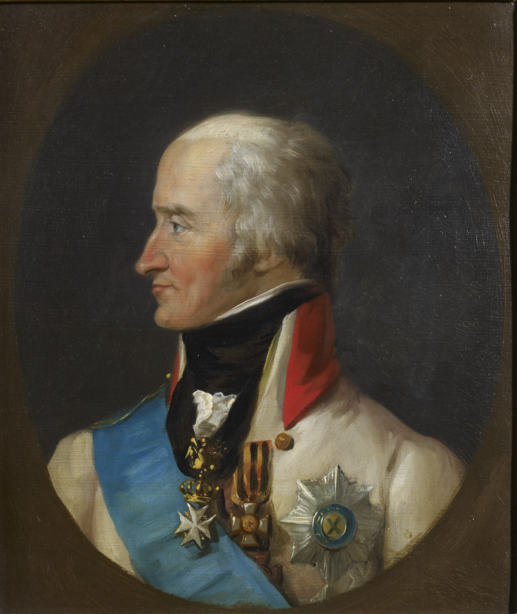 Stroehling’s work in the Royal Collection allows us to trace a rare example of continuity between the masters of the Dutch Golden Age and those of the early nineteenth century. Stroehling was brought up in Dusseldorf where a magnificent collection of the polished, classicising and elegant works (often on copper) by artists such as Adriaen van der Werff (1659-1722) had been formed by Johann Wilhelm II, Elector Palatine (1658-1716). Stroehling worked all over Europe but spend much of the first two decades of the nineteenth century in London; between 1810 and 1820 he was even styled ‘Historical Painter to the Prince of Wales’. Stroehling’s work elsewhere tended to be life-sized portraiture, but the Royal Collection has an important group of small-scale portraits on copper, executed with fine detail and a glossy finish; Joseph Farington perceptively referred to them as ‘painted in a Vanderwerfe manner’. Stroehling’s price for these ‘Cabinet Pictures’ was 200 guineas each, an impressive sum in the period even for a life-sized work.